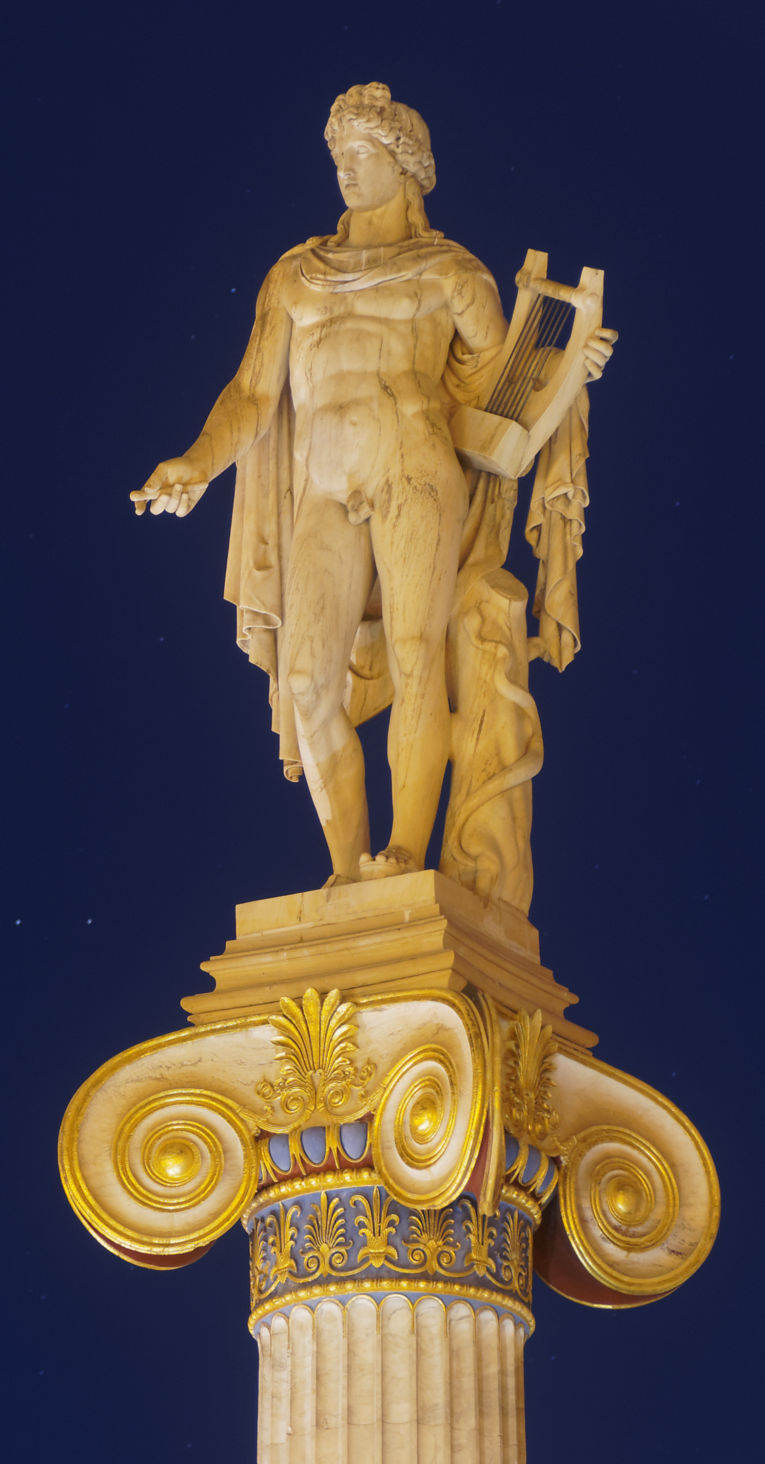 Apollo column at the Academy of Athens, work of Leonidas Drosis (died in 1886), at night.